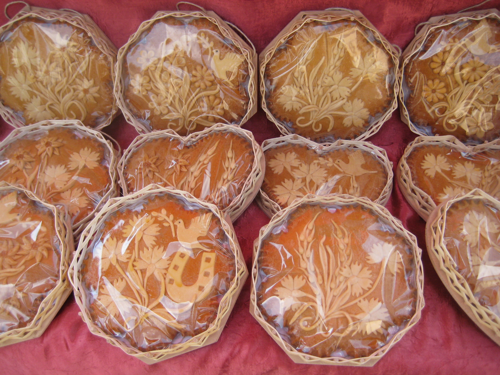 Dražgoški kruhki (medenjaki)